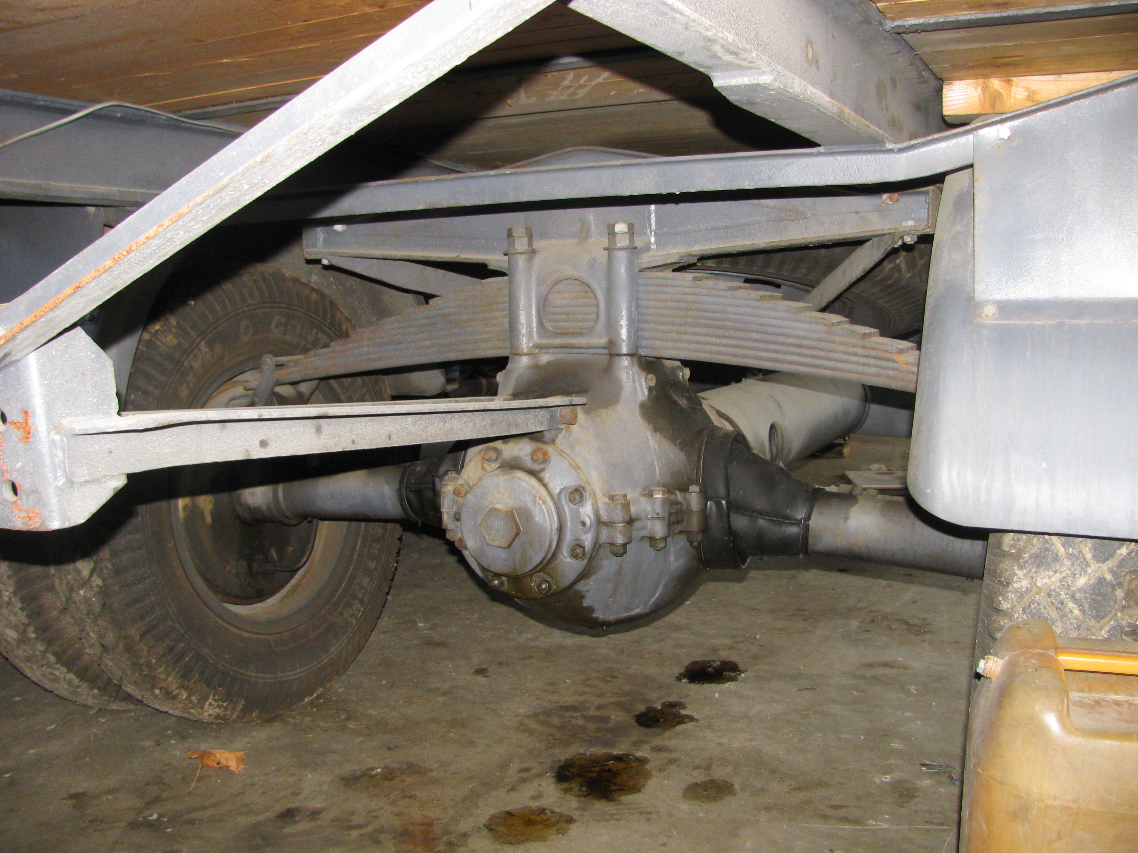 Rear axle of Tatra 27B. Swing axle.